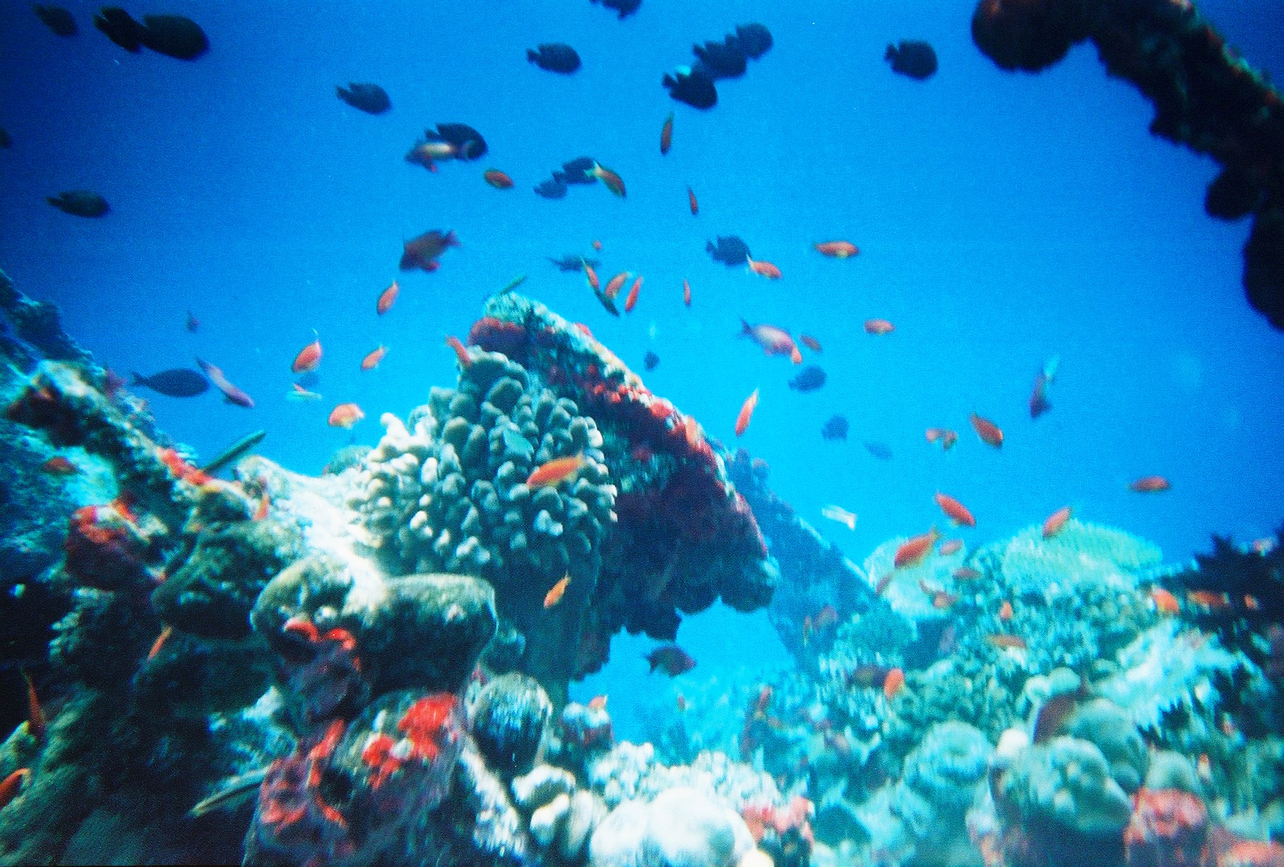 Fishing in the Maldives